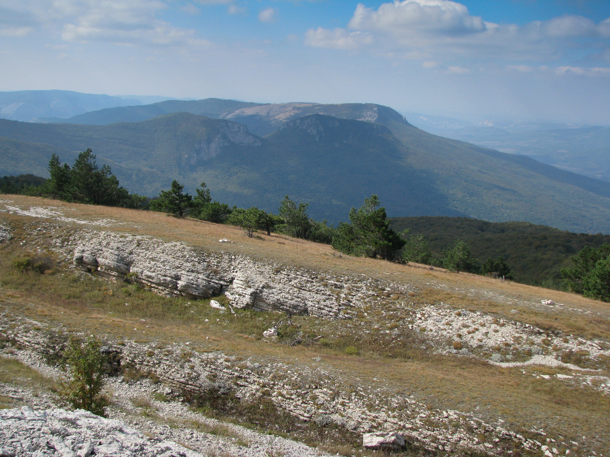 The mount Boyka (Crimean Mountains) viewed from southeast, from the Jalta yayla.